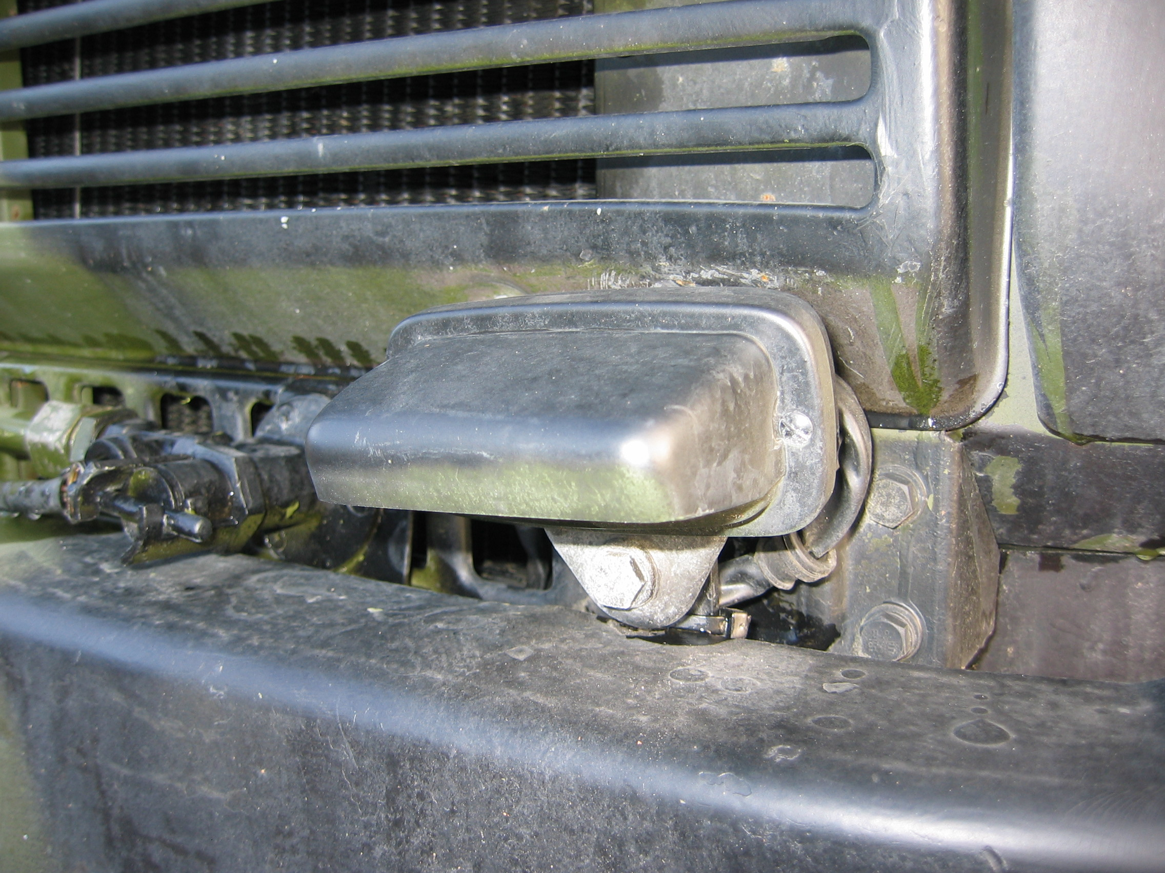 Description Military front convoy (black-out) lights, here on a Mercedes-Benz Geländewagen jeep in Norwegian military service. Date 6 Nov 2005 Photographer Harald Hansen